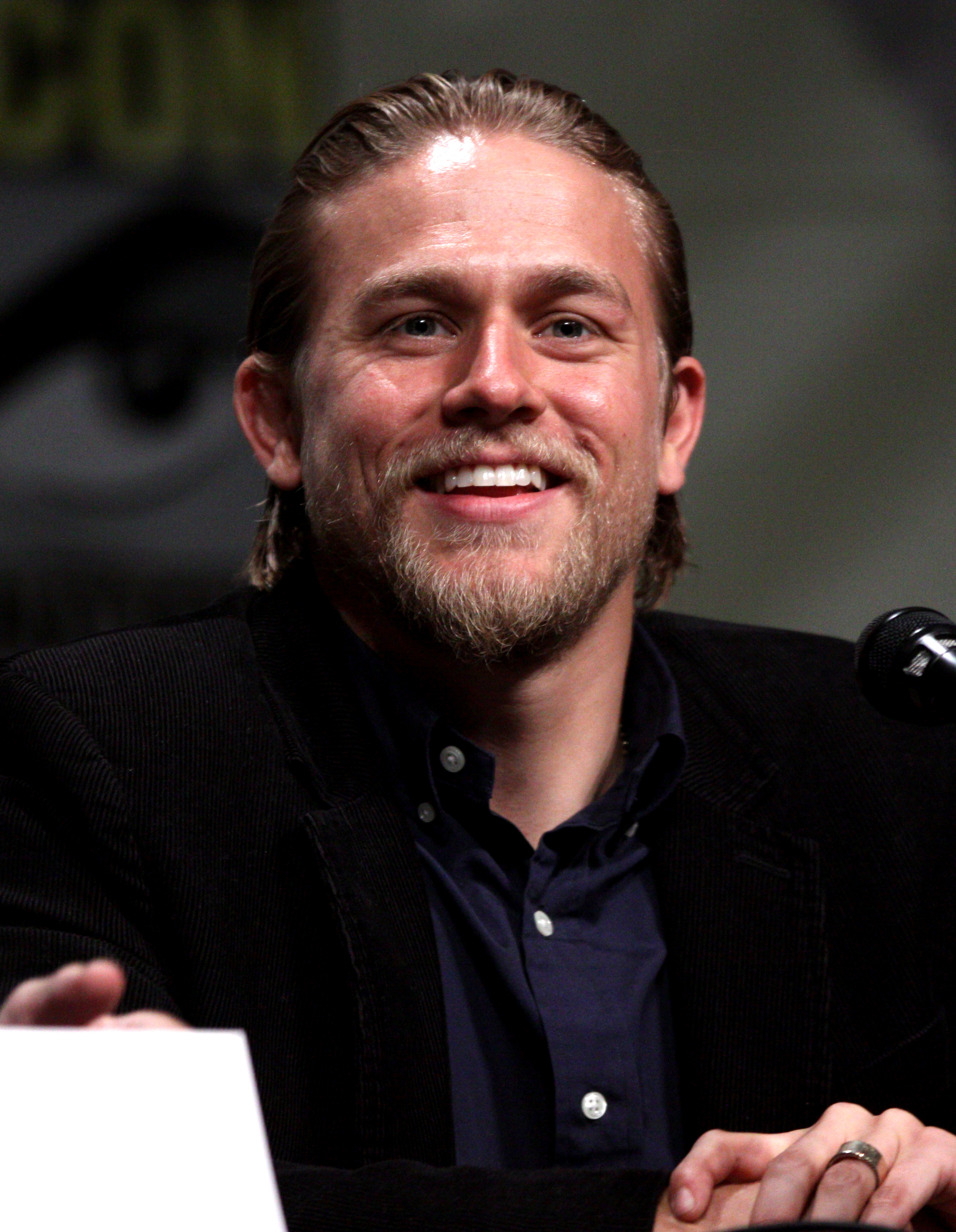 Charlie Hunnam at the 2012 Comic-Con in San Diego.